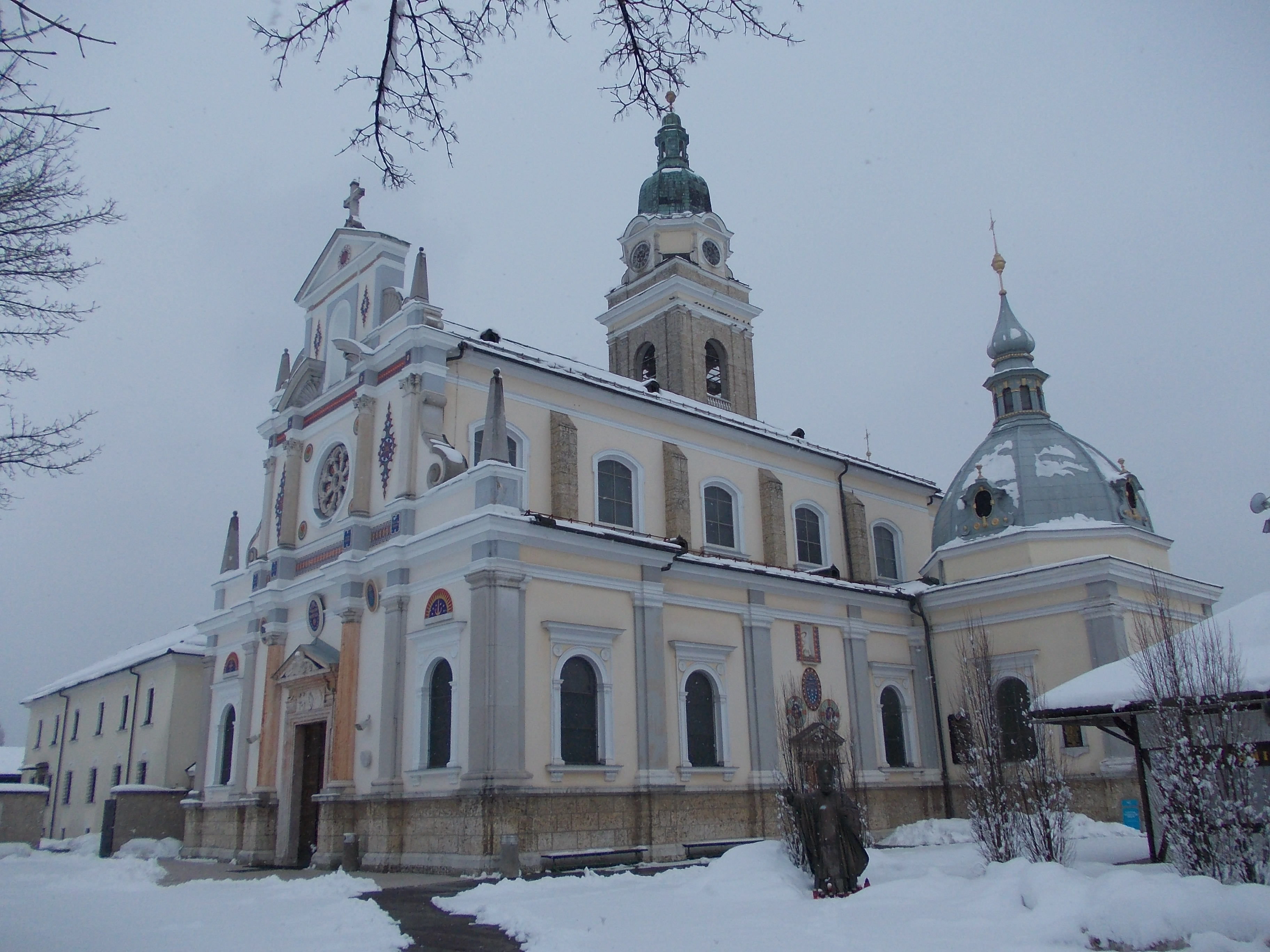 Mary of Help Basilica, Brezje